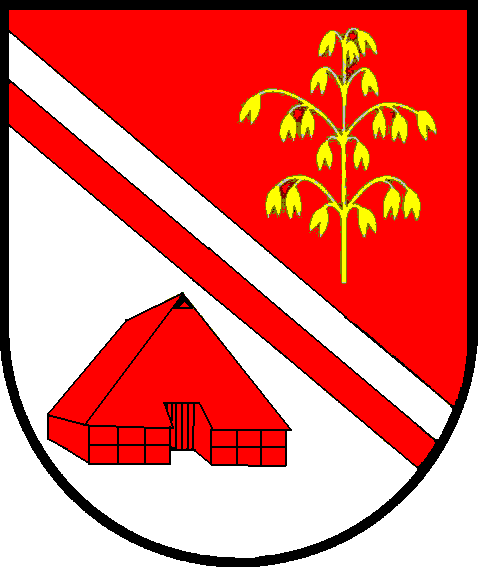 Coat of arms of the municipality Besdorf in Schleswig-Holstein, Germany.